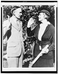 Ruth Bryan Owen, Minister to Denmark, America's first woman envoy, taking the oath of office. P.F. Allen, Chief Clerk of the appointment division of the Department of State is administering the oath